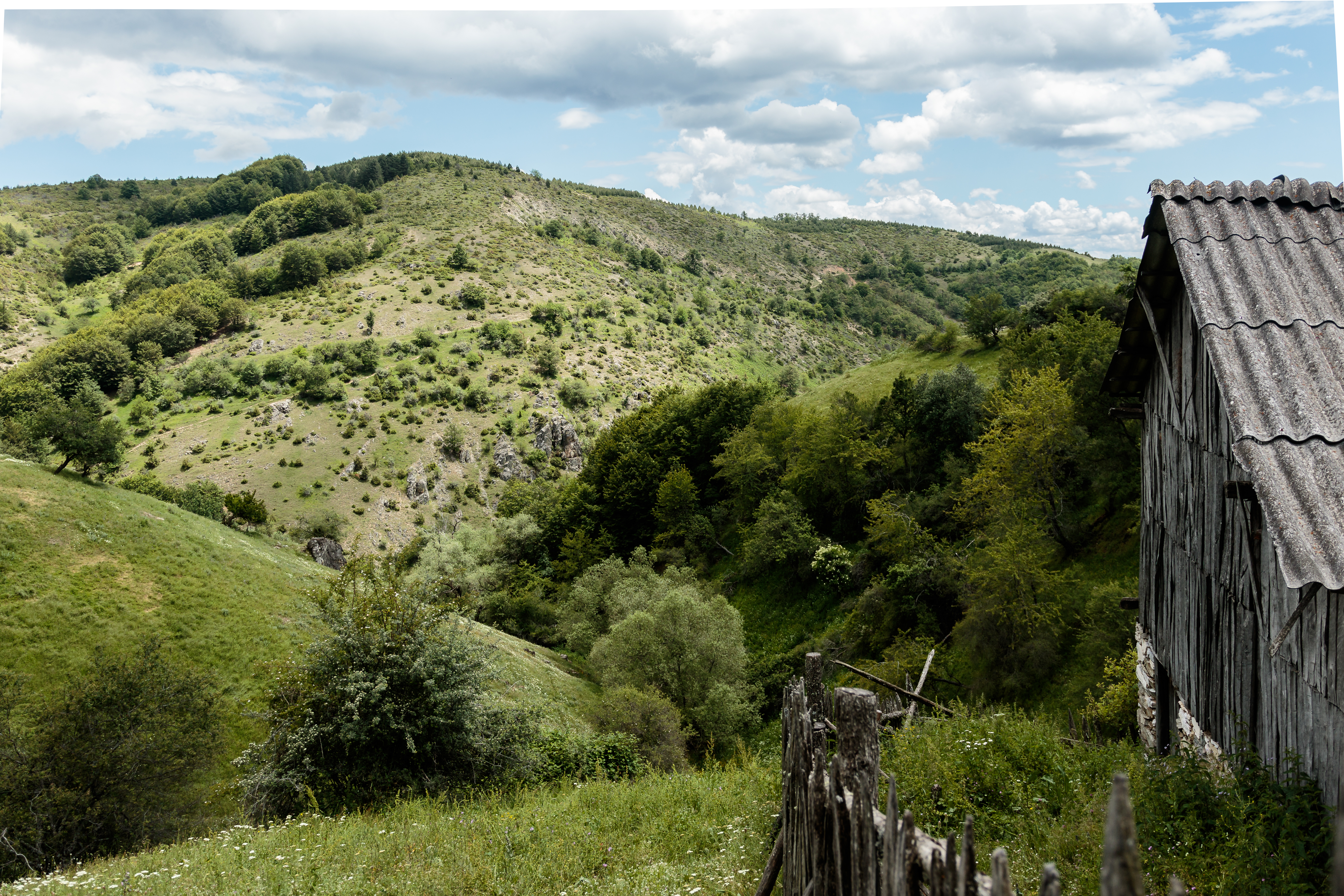 View of the Luben Mountain in the village Zašle